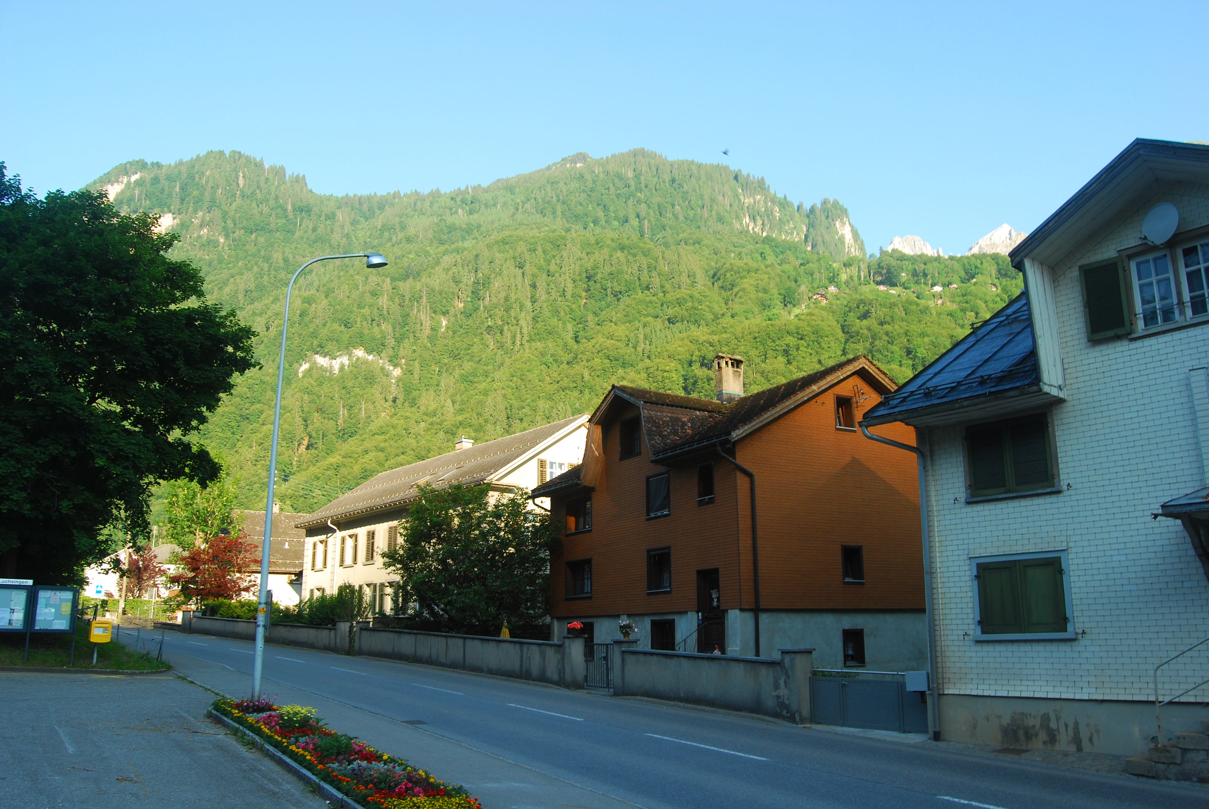 Hätzingen, municipality of Luchsingen, canton of Glarus, Switzerland